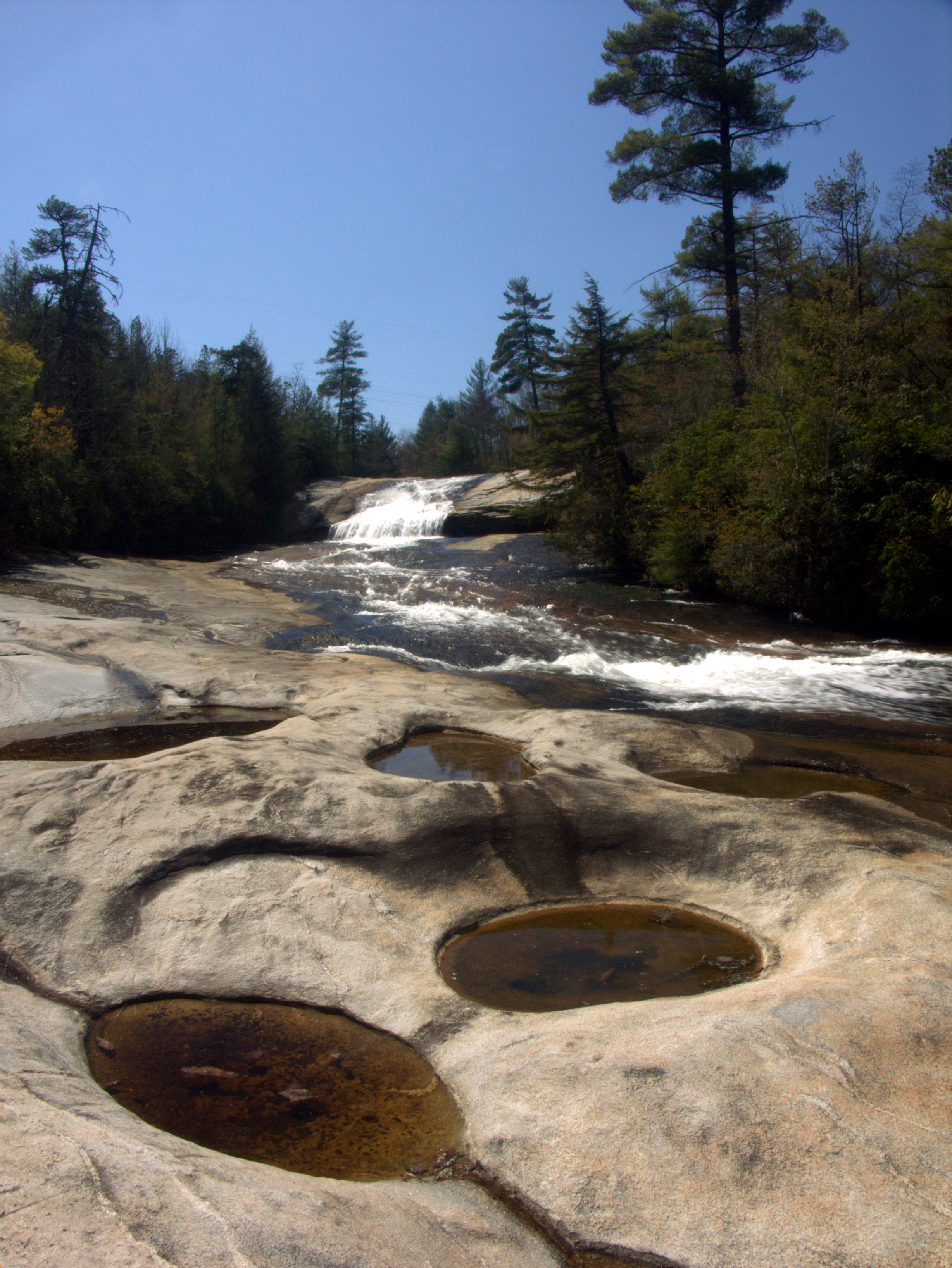 Top section of Bridal Veil Falls, on the Little River, in Dupont State Forest, NC.